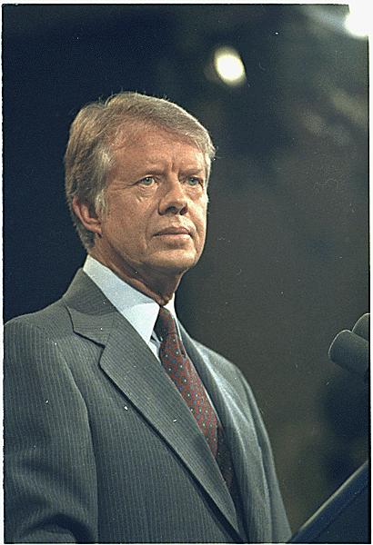 ARC Identifier: 181823 Title: Jimmy Carter at the podium during a press conference, 10/10/1978 Access Restrictions: Unrestricted Use Restrictions: Unrestricted